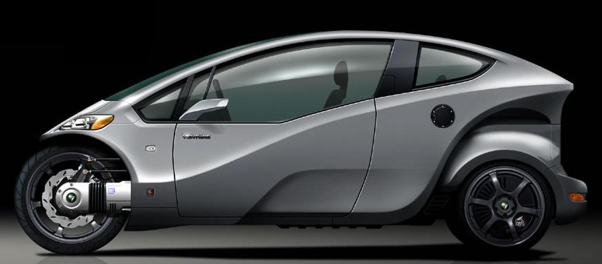 Computer generated image of Venture one concept vehicle